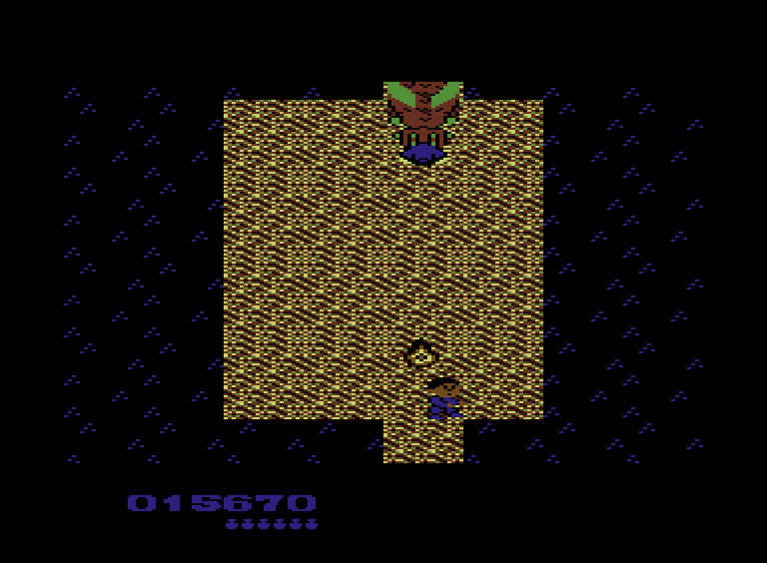 Sprites in a C64 Game (named Spittis Search). I have made the Game, the graphics and so on.